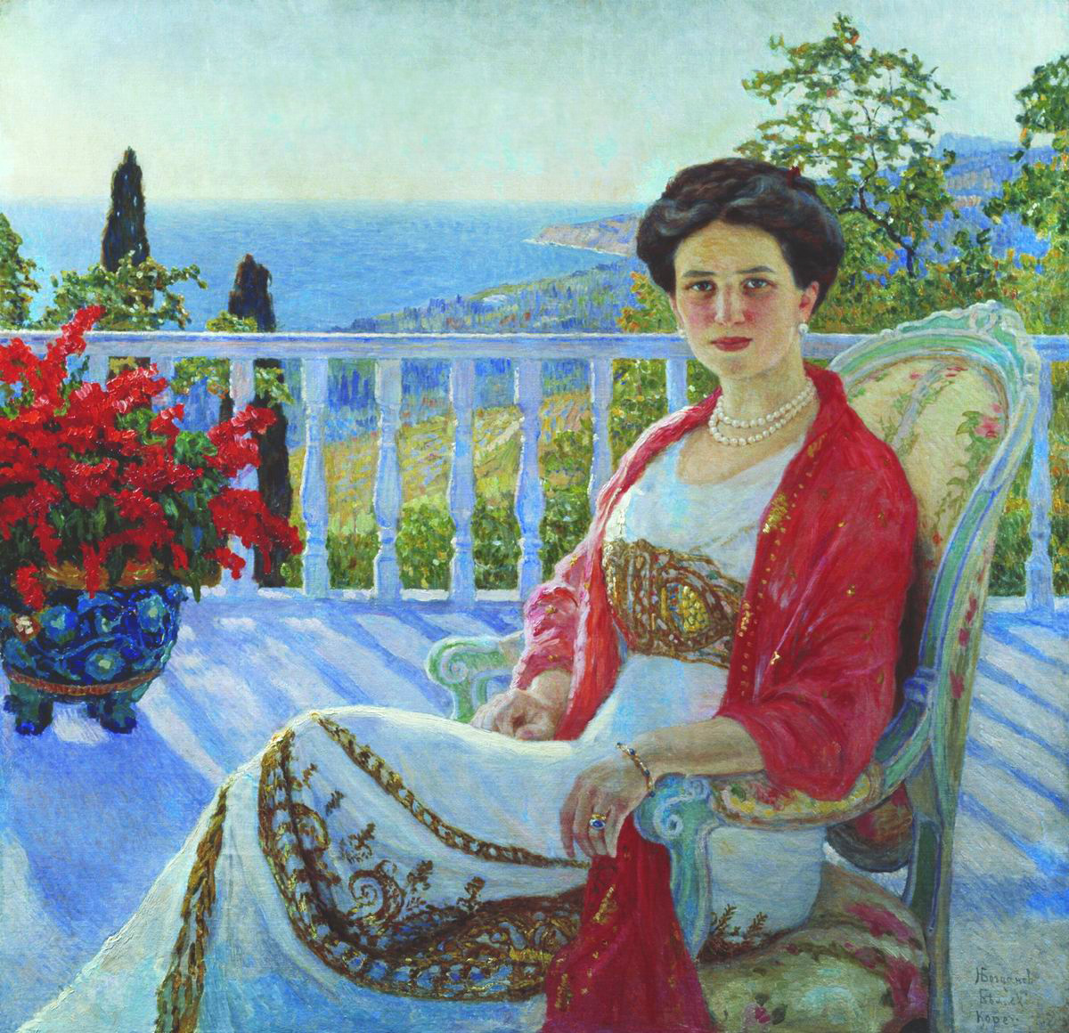 Nikolay Bogdanov-Belsky. Lady on a Balcony. Koreiz. Portrait of I.A. Yusupova. 1914